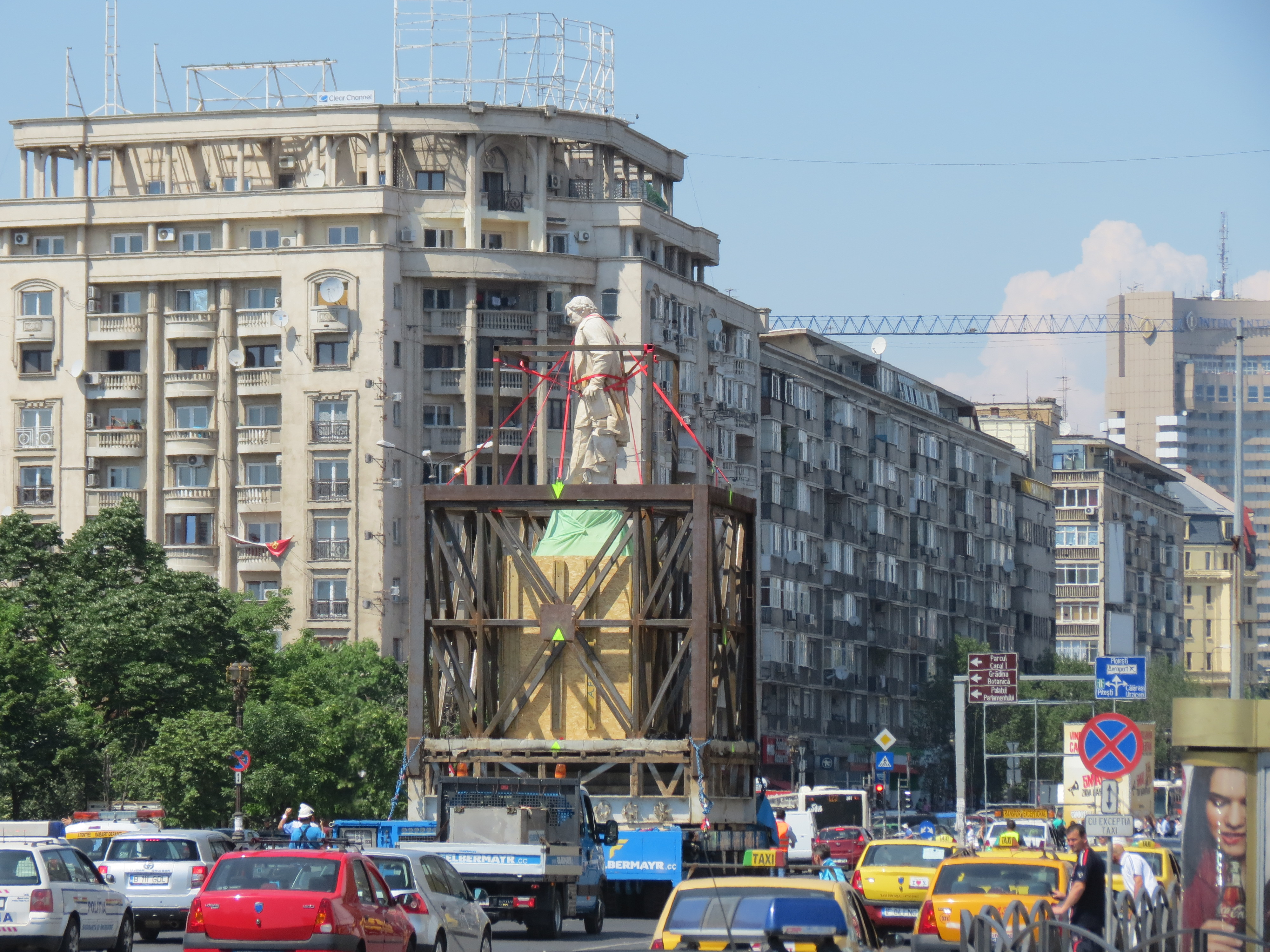 The statues in front of the University have been returned to their rightful place. Here you can see Ion Heliade-Radulescu sightseeing in Unirea Square.